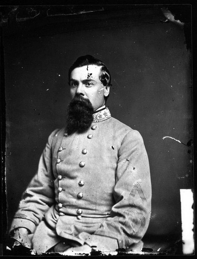 Brig. Gen. Raleigh Edward Colston. Glass-plate negative, Cook Collection, The Valentine